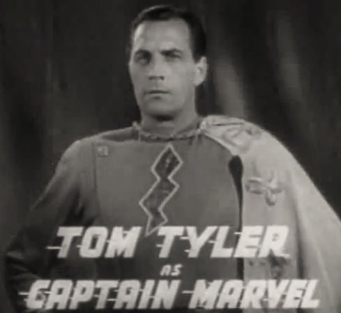 Tom Tyler in Adventures of Captain Marvel, Chapter 1 Curse of the Scorpion - cropped screenshot